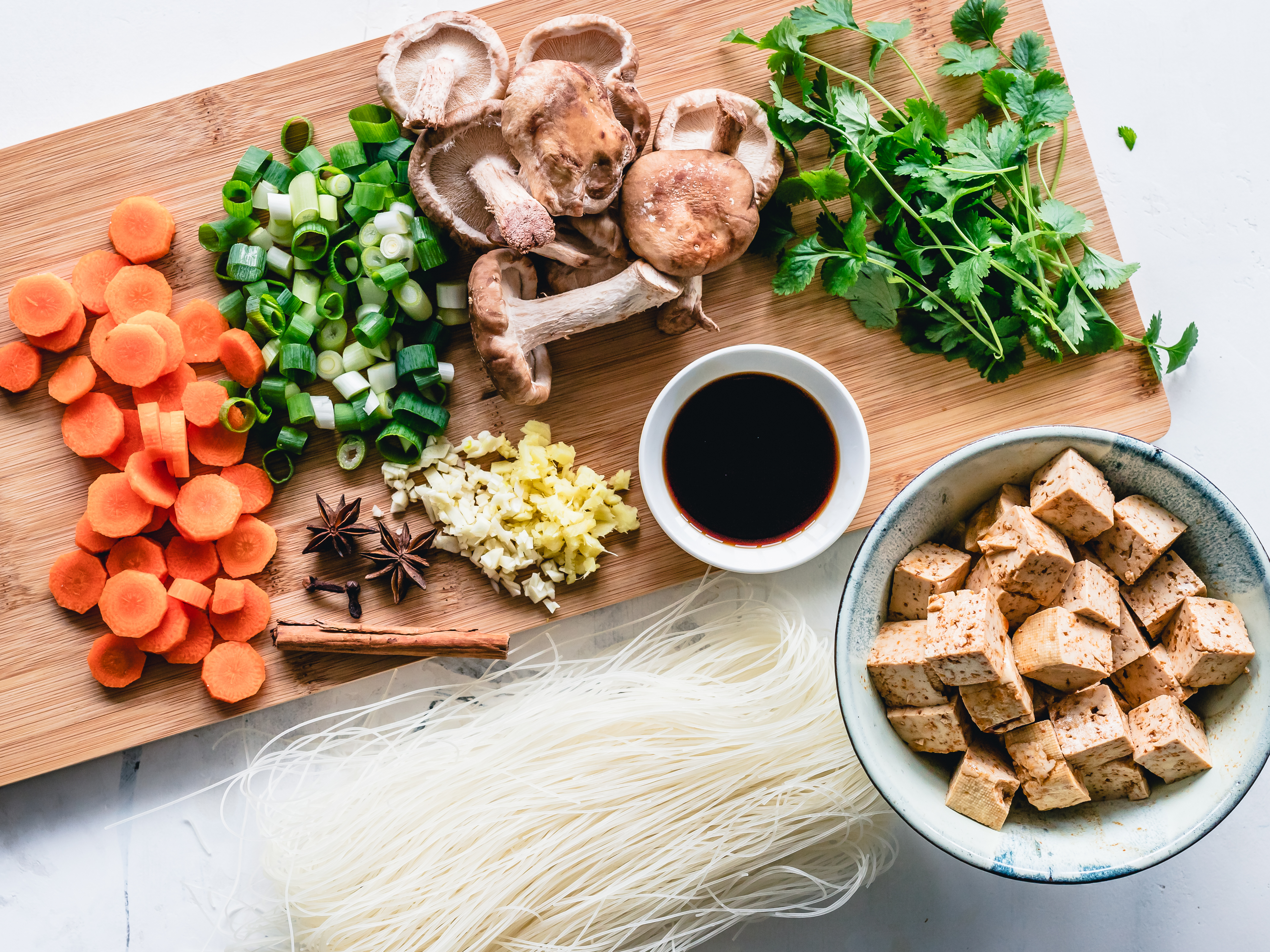 Mushrooms, tofu, vegetables.